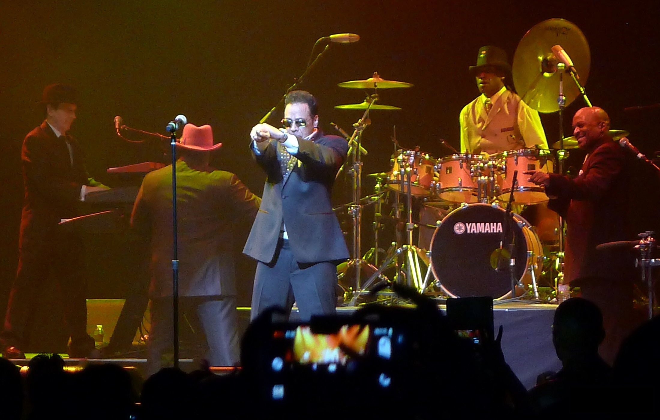 Morris Day & The Time performing at Club Nokia in Los Angeles CA on November 23rd, 2013